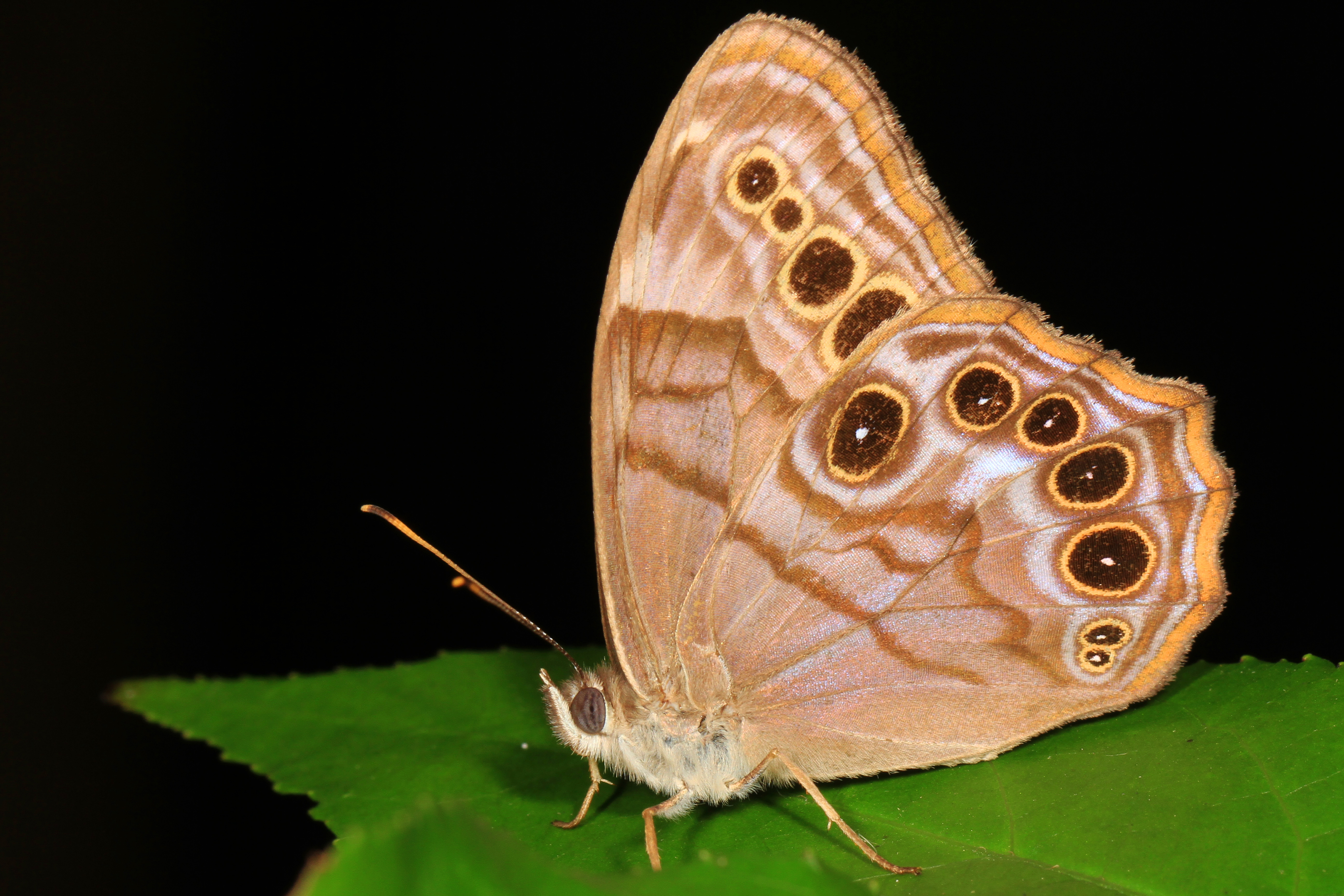 Northern Pearly-eye - Lethe anthedon, Meadowood Farm SRMA, Mason Neck, Virginia